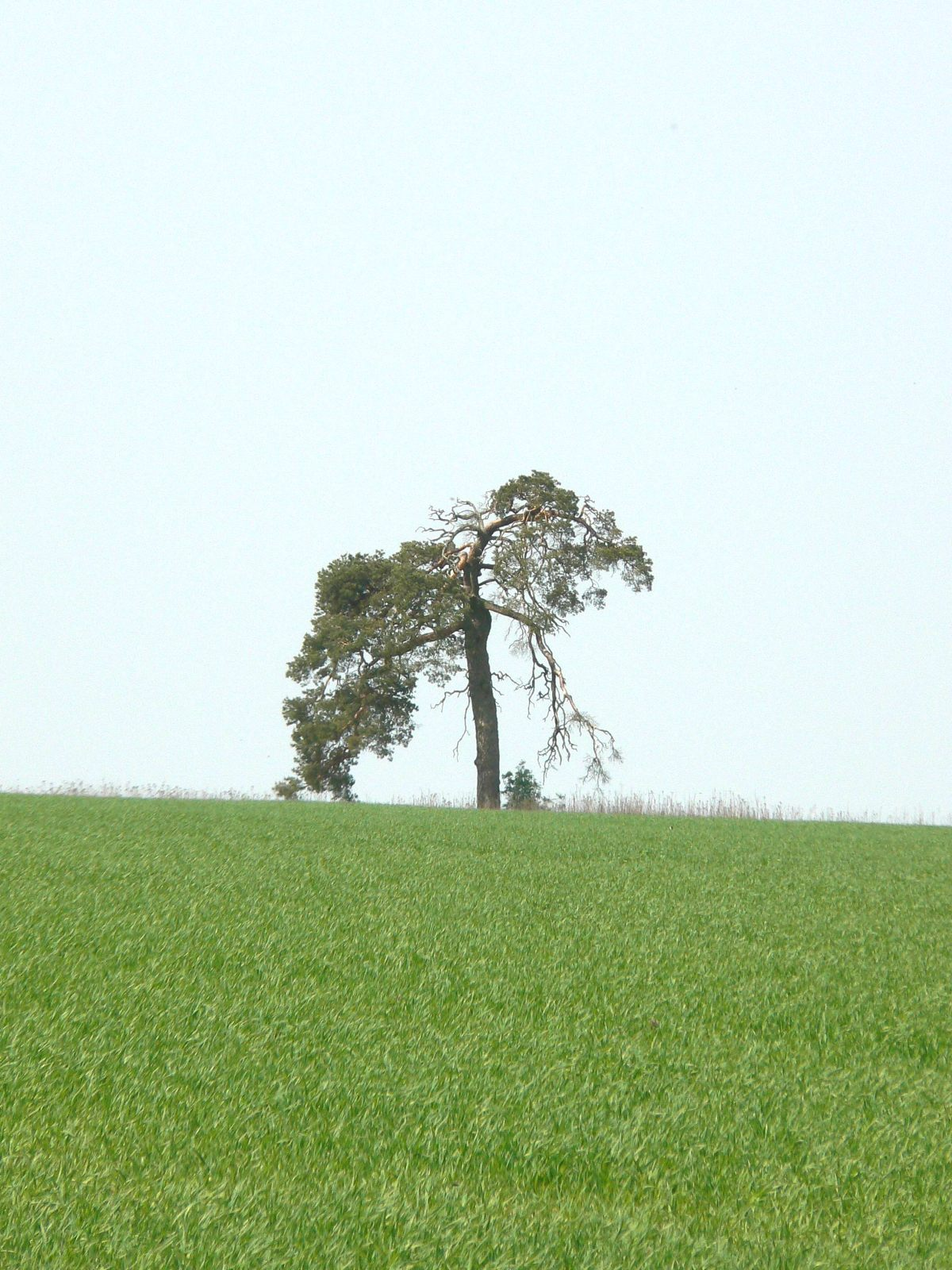 The Tiidu pine in Estonia